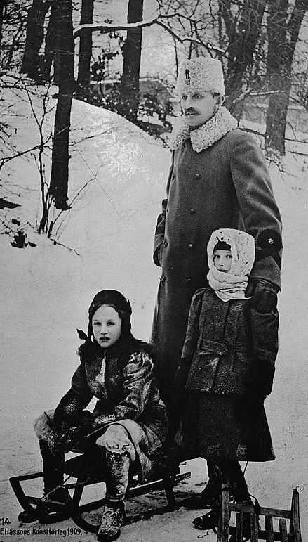 Prince Carl, Duke of Västergötland (1861-1951) with his daughters Princess Margaretha of Sweden (1899-1977) and Princess Märtha of Sweden (1901-1954).